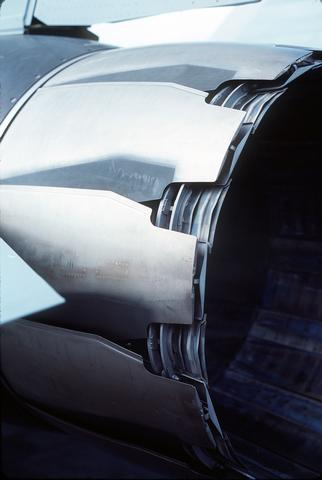 Outlet nozzle of an F-14 Tomcat engine